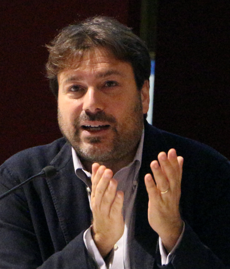 Tomaso Montanari in Florence, Oct. 2016